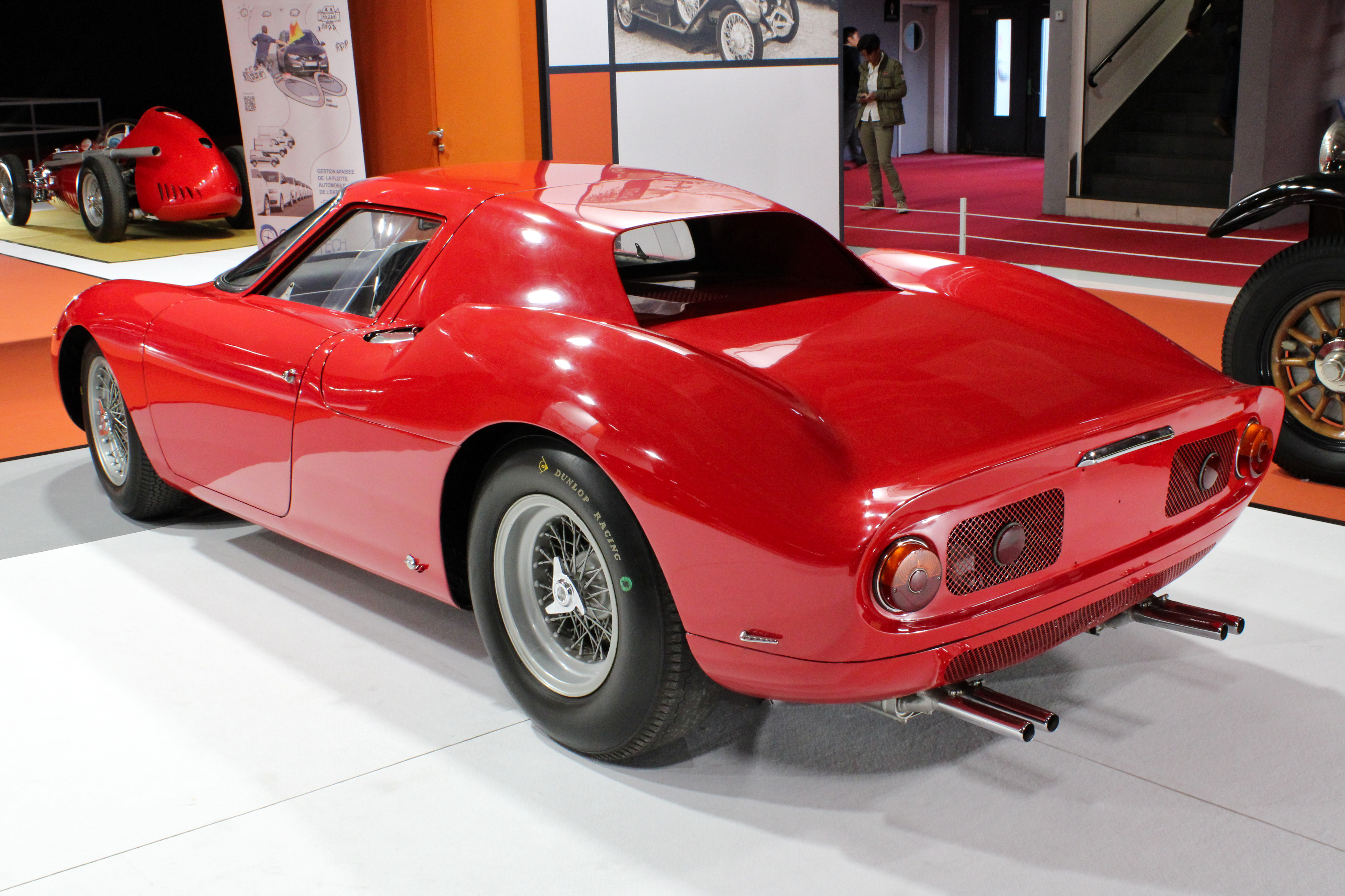 Ferrari Berlinette 275 LM (1965) at Paris Motor Show 2018